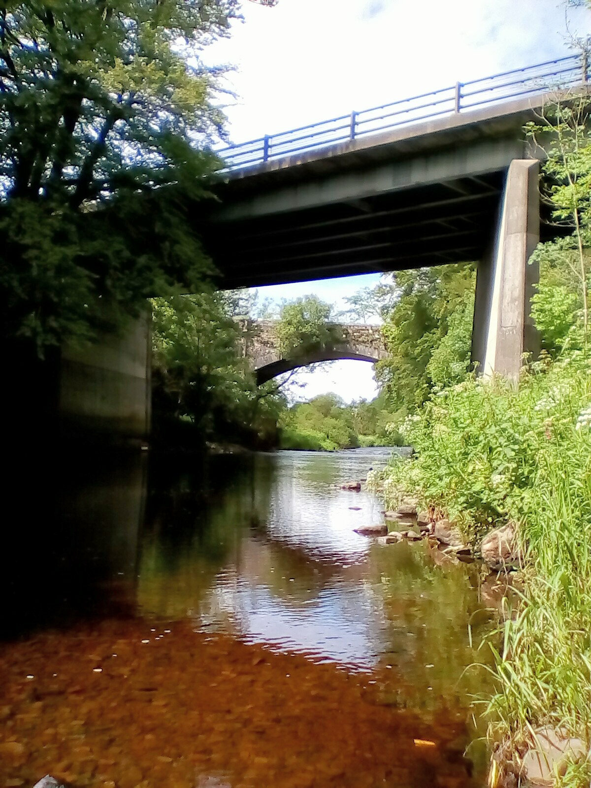 John McCracken was a mason architect of churches and bridges. He designed St Andrew's RC Church Dumfries (later to become the cathedral of Galloway Diocese).Built old Ramhill Bridge 1798. New bridge, built in 1972 by M.J. Williamson Kirkcudbrightshire County Surveyor, which carries the A75 over the River Urr.